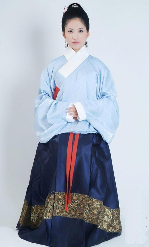 Ruqun (襦裙) with mamianqun (馬面裙) - Women's Chinese traditional clothing (hanfu)